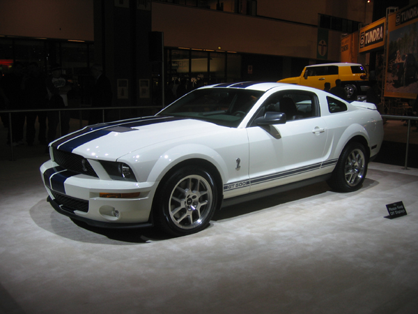 2007 Shelby GT500 at the Los Angeles Auto Show. Taken at the 2006 LA International Auto Show